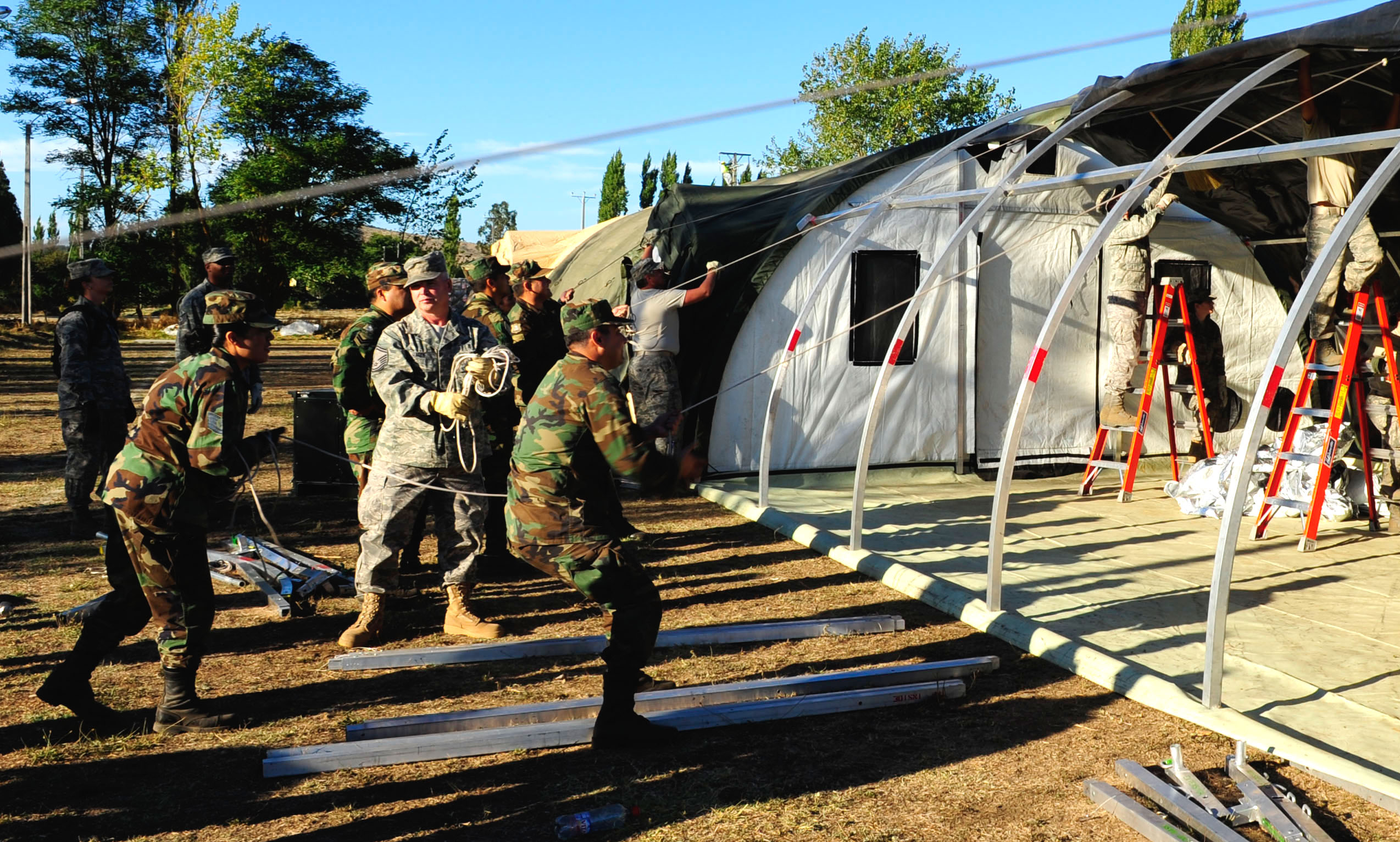 Airmen from a US Air Force expeditionary medical support team, along with members of the Chilean army, pull the roof over a mobile hospital in Angol, Chile.